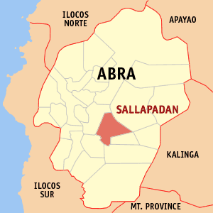 Map of Abra showing the location of Sallapadan